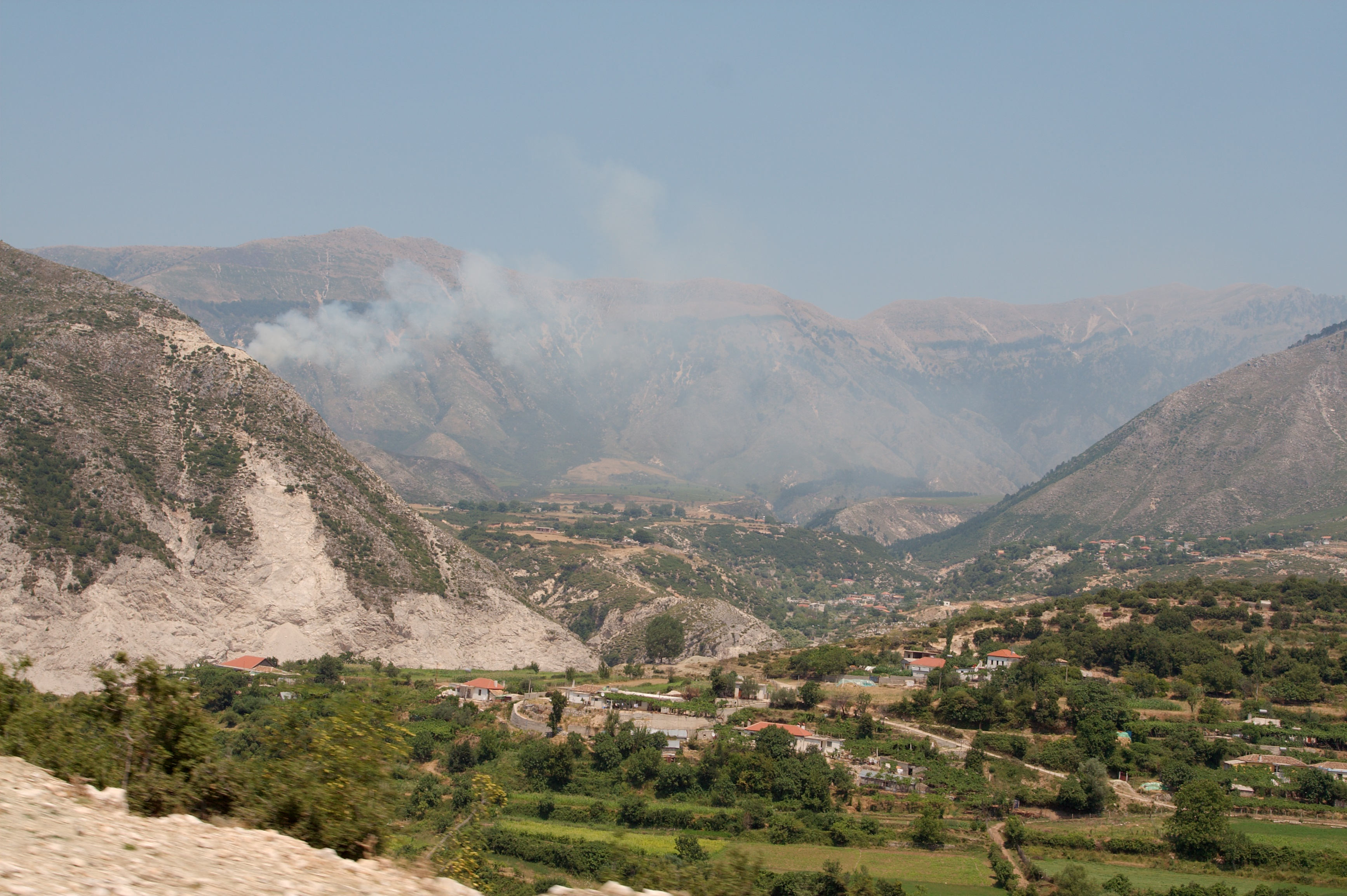 Mountains of the National Park of Llogara, Himara, Albania